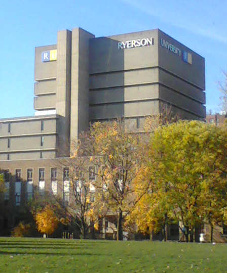 The Ryerson University Library in Toronto, Ontario.